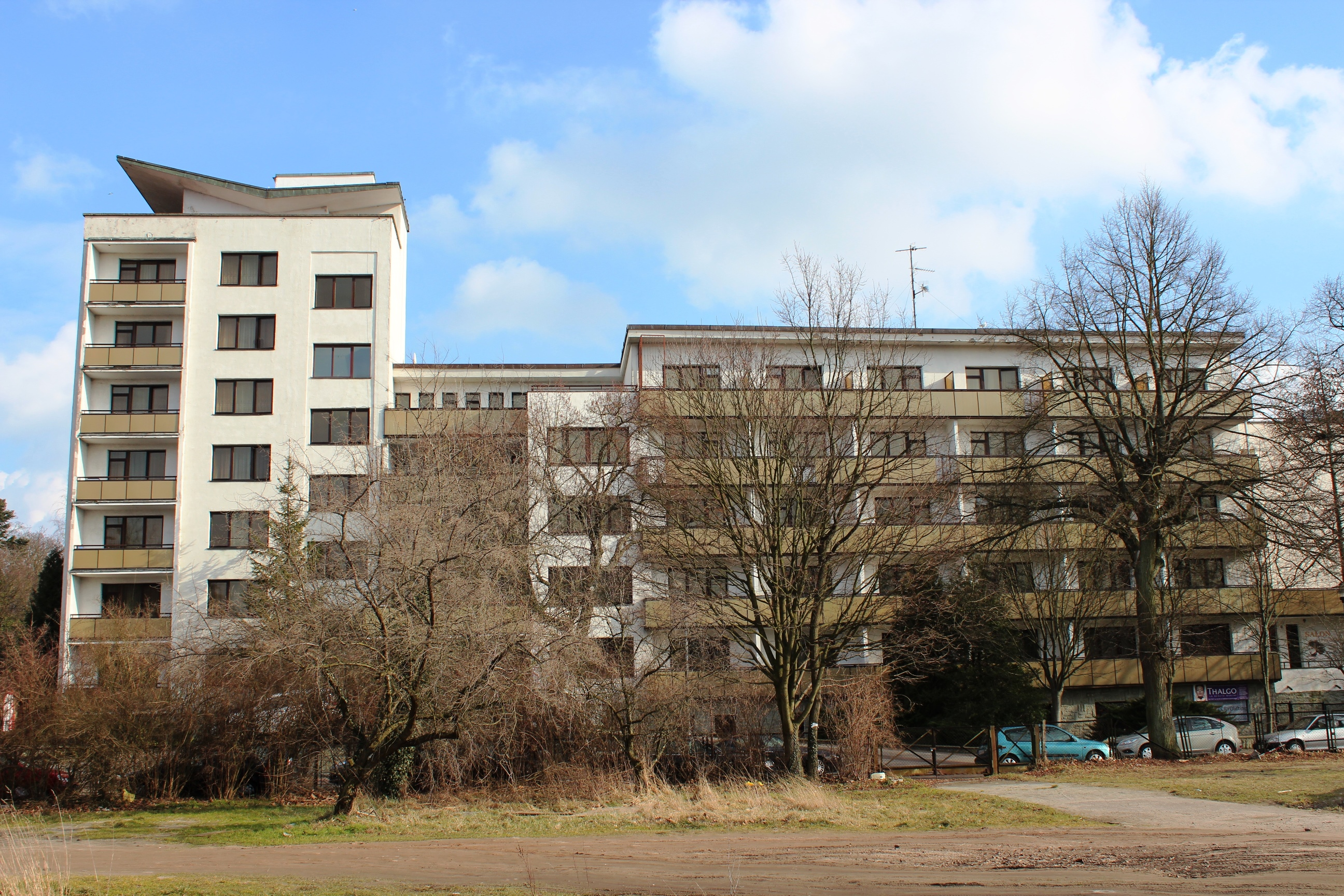 Gryf Sanatorium in Kołobrzeg